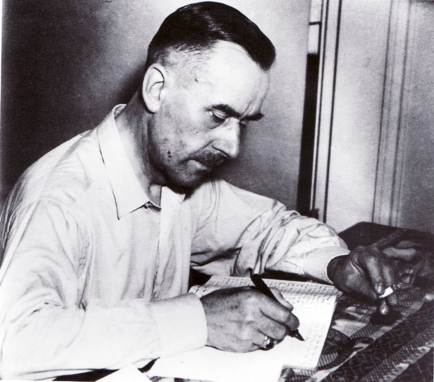 German writer Thomas Mann